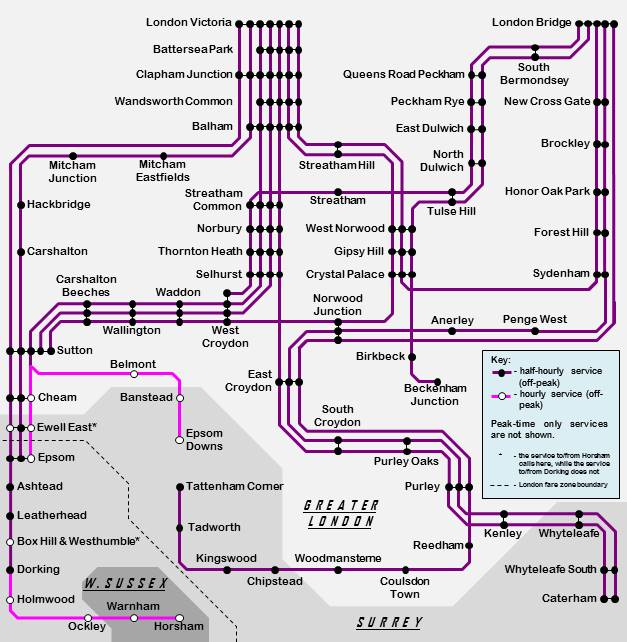 A map of all metro services in South London operated by Southern, as of December 2016.